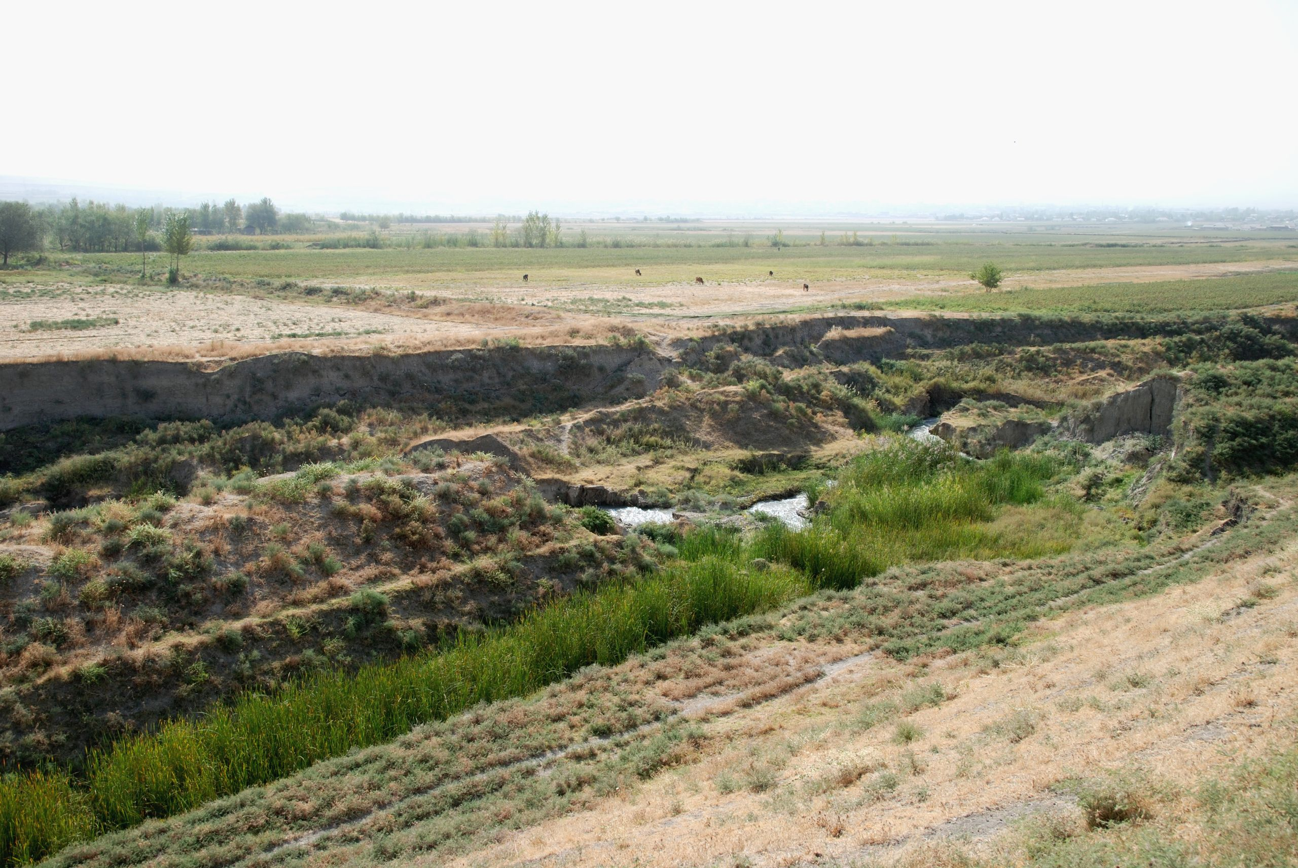 Cotton fields north of Danghara near Korez village